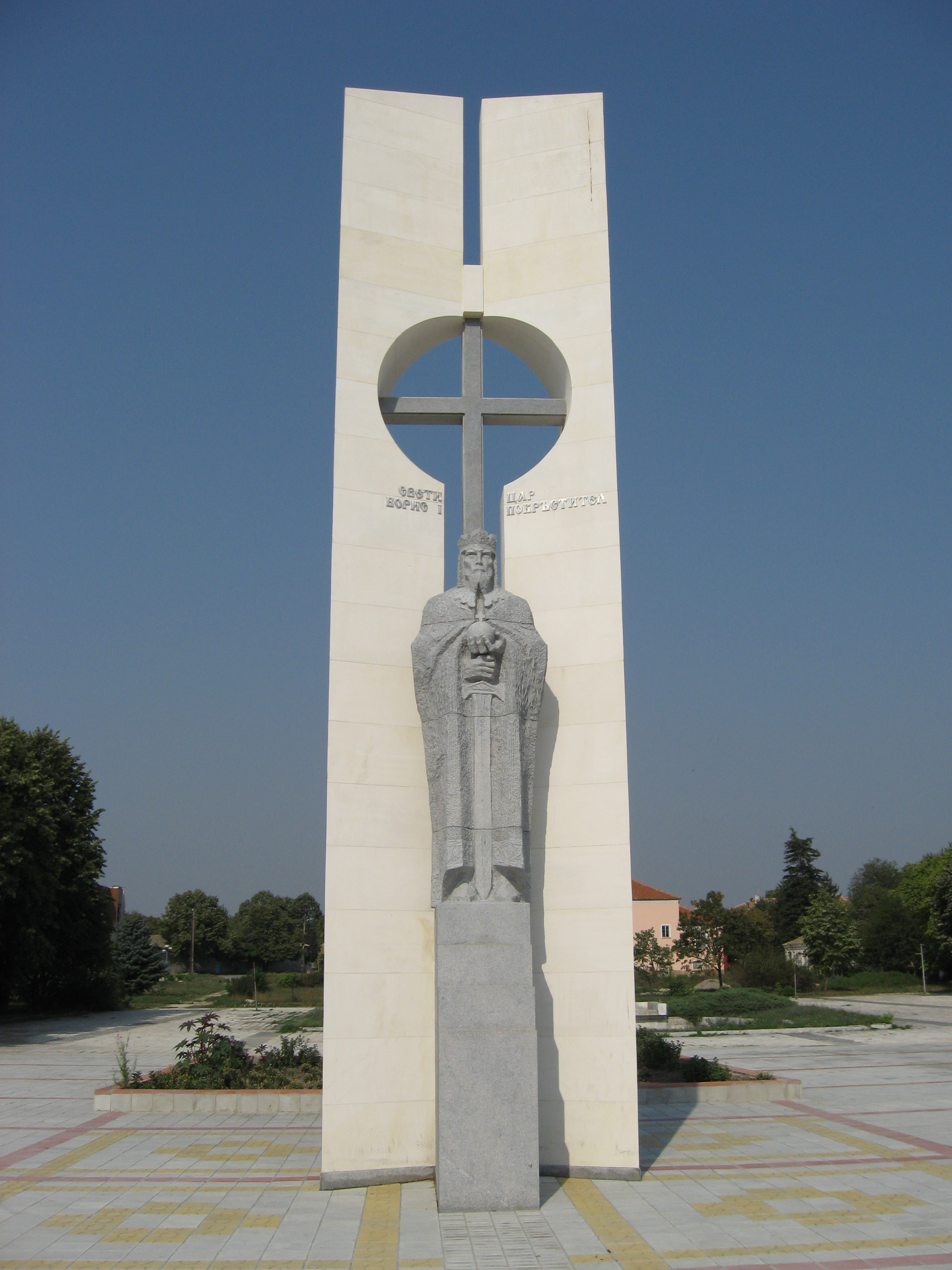 Monument of Boris I of Bulgaria in Pliska